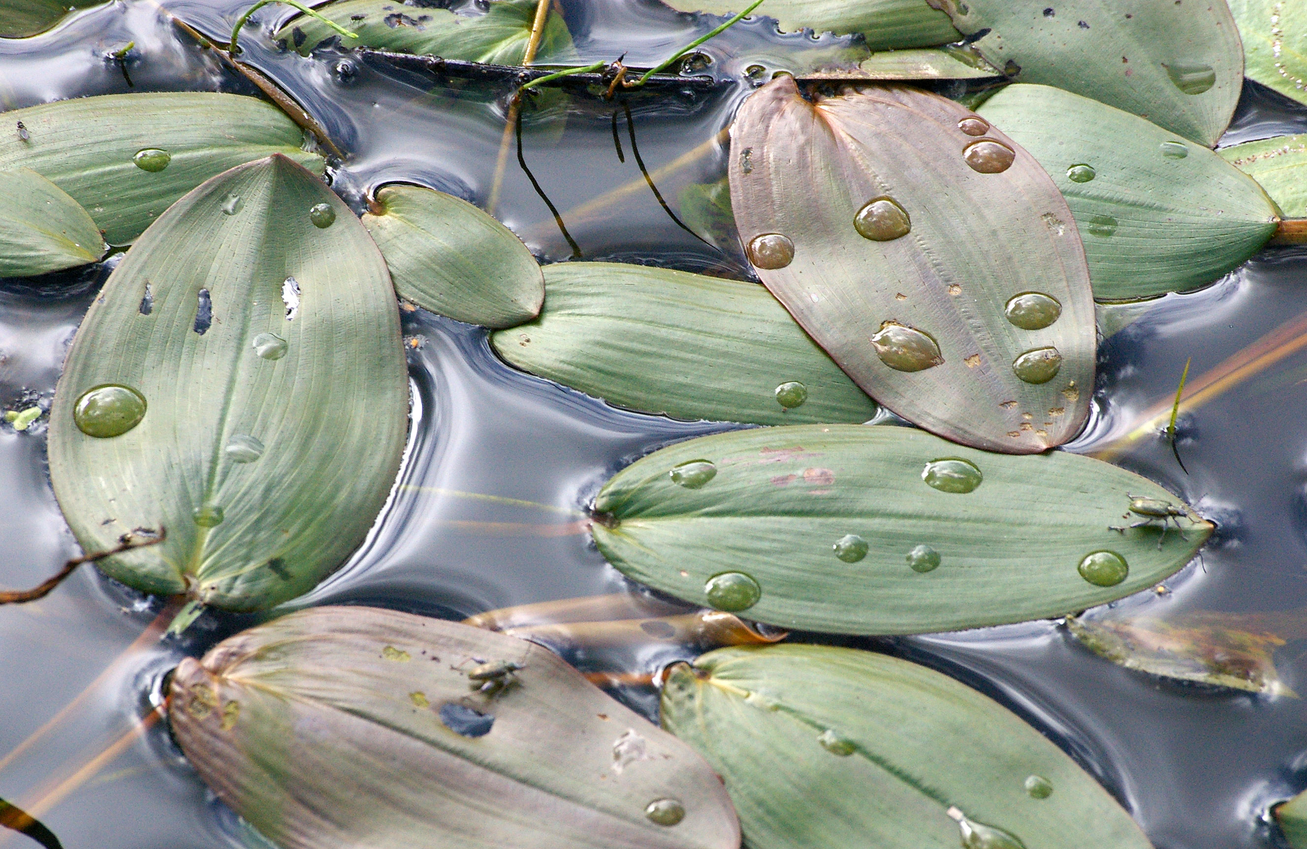 Swimming leaves of Floating Pondweed, Potamogeton natans.